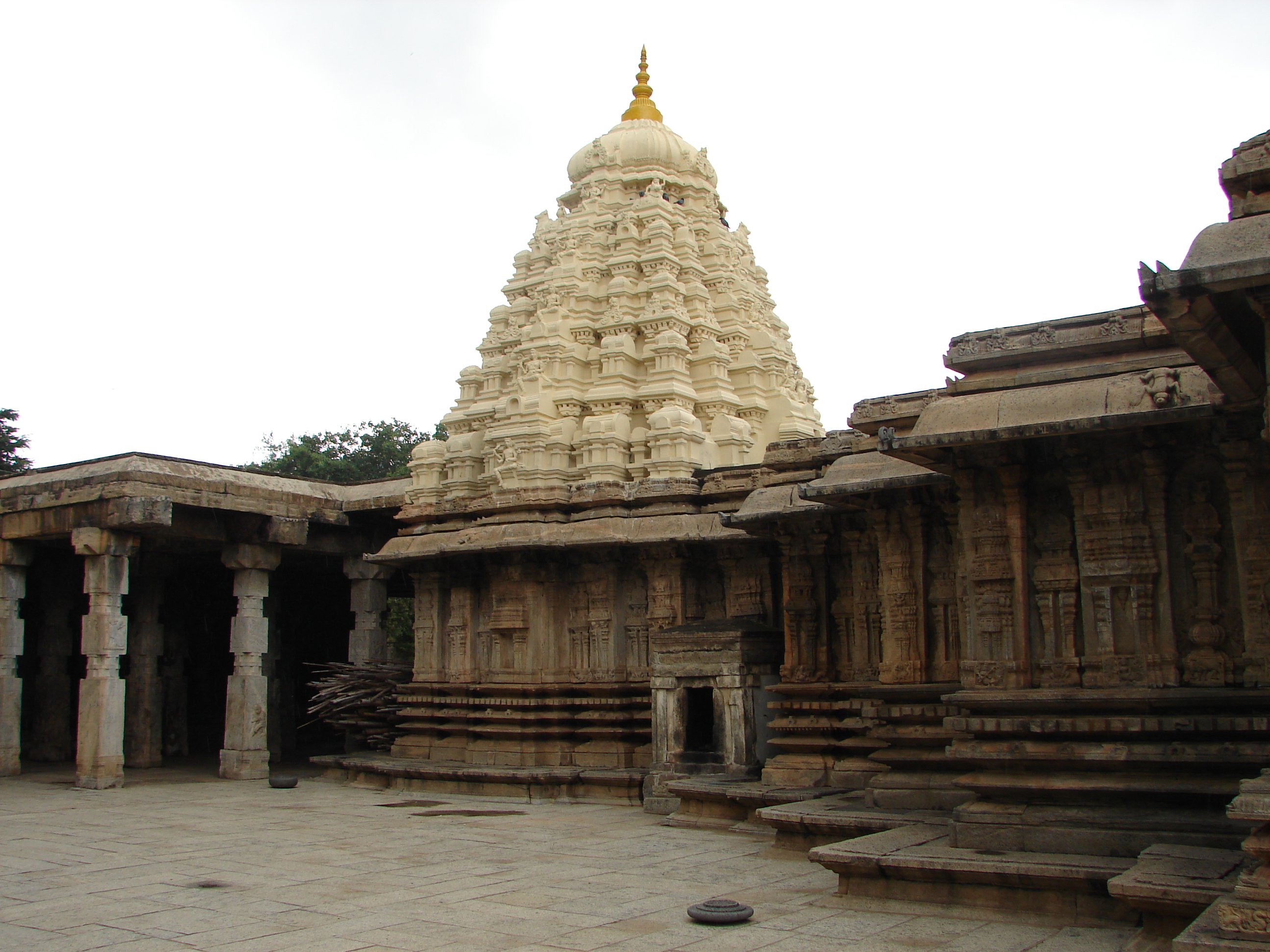 This photograph was taken by me at the Vaidyeshvara temple (also spelt Vaidyeshwara) in Talakad (also pronounced as Talkad, Talakadu), Mysore district, Karnataka state, India. The construction of this temple was undertaken by the The Western Ganga dynasty of Talakad in the 10th century. Later renovations and additions were done by the Cholas and Hoysalas up to the 14th century